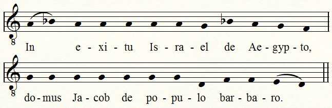 Tonus peregrinus. Self-made transcription from Liber usualis, p.160